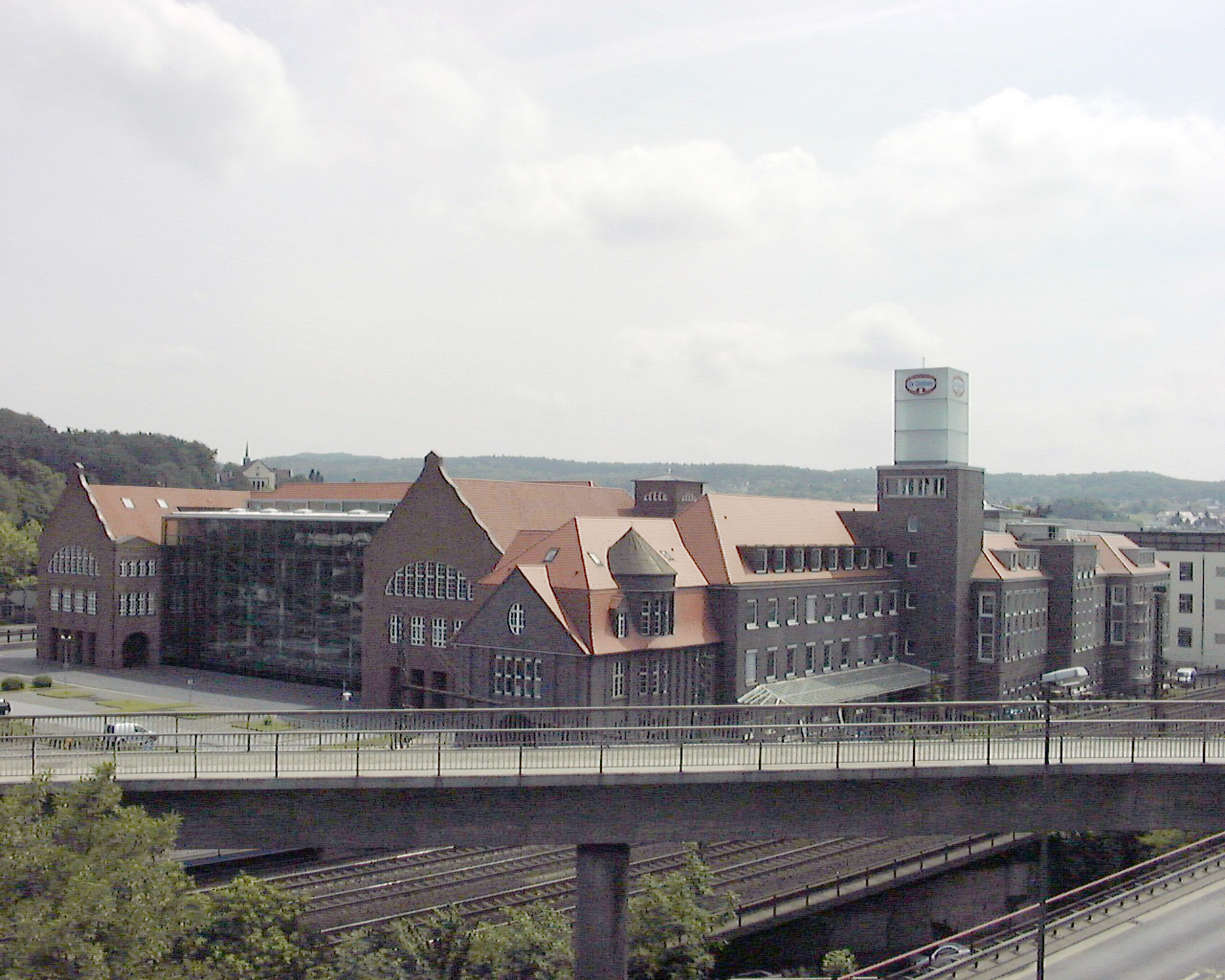 Bielefeld, Germany: Domicile of the Dr. August Oetker Nahrungsmittel KG.